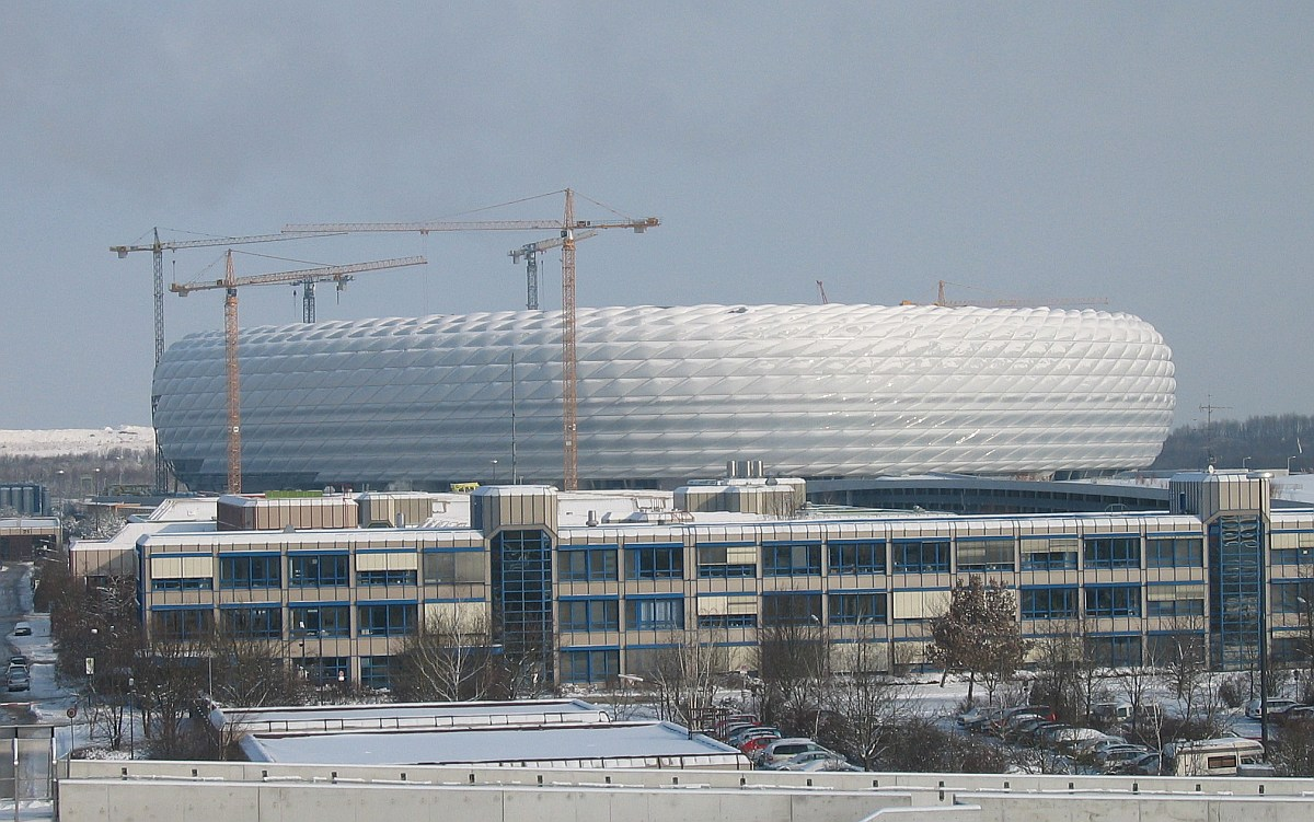 Allianz-Arena Munich